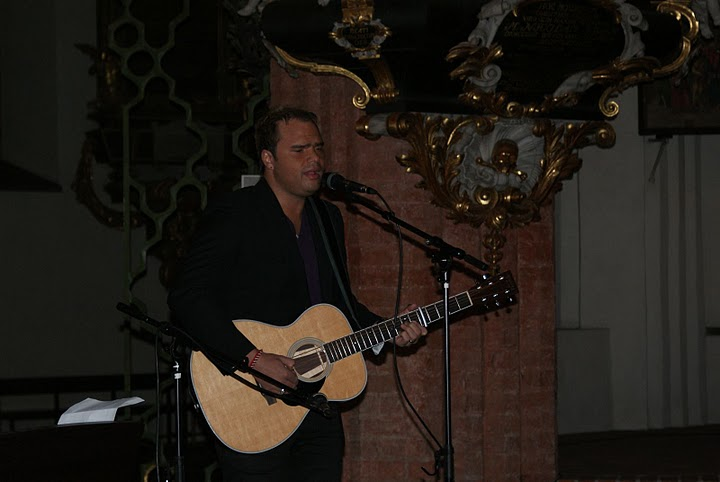 André Wall at an Acoustic Concert in Domkyrkan Västerås 2010